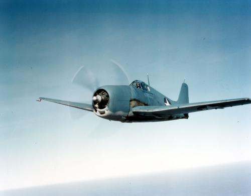 A U.S. Navy Grumman F6F-3 Hellcat in 1943.